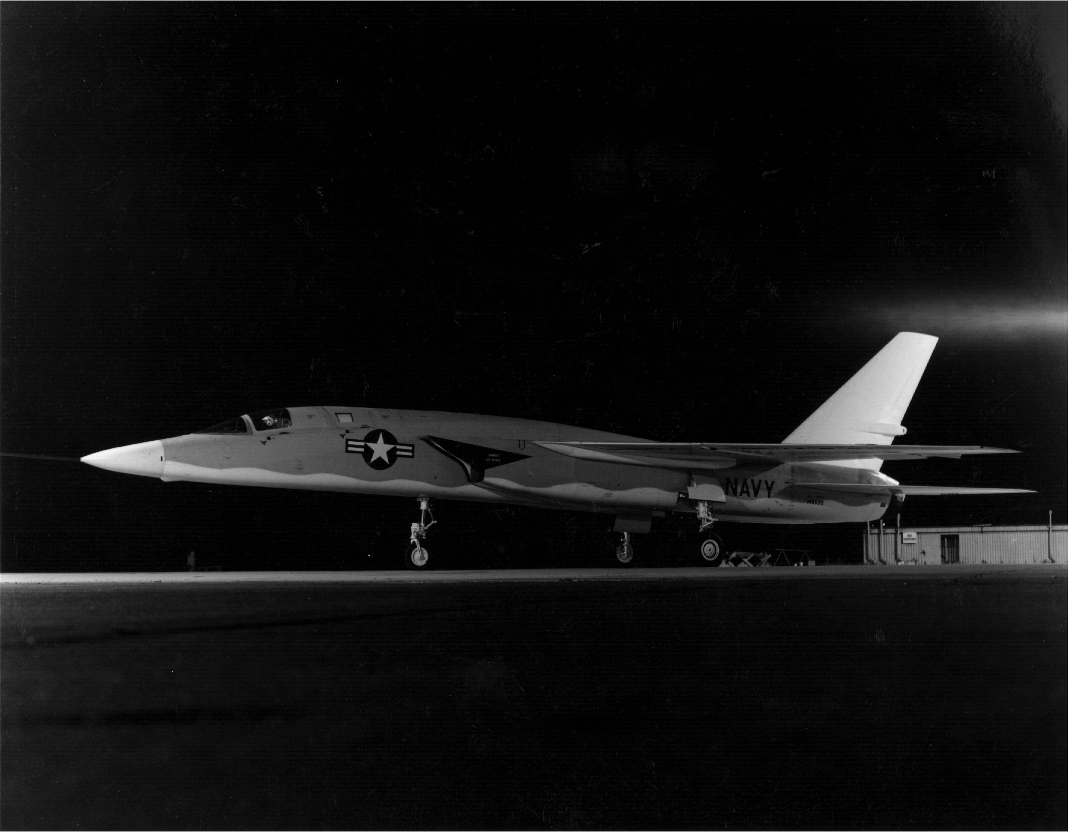 A U.S. Navy North American A3J-2 Vigilante (BuNo 146699). This aircraft was the third production A3J-1 which was then modified to an A3J-2 (after 1962 A-5B and YA-5C) and finally to the A3J-3P (RA-5C).